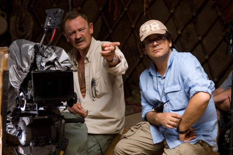 Director Andrei Proshkin and director of photography Yuri Raysky at the filming of "The Horde"